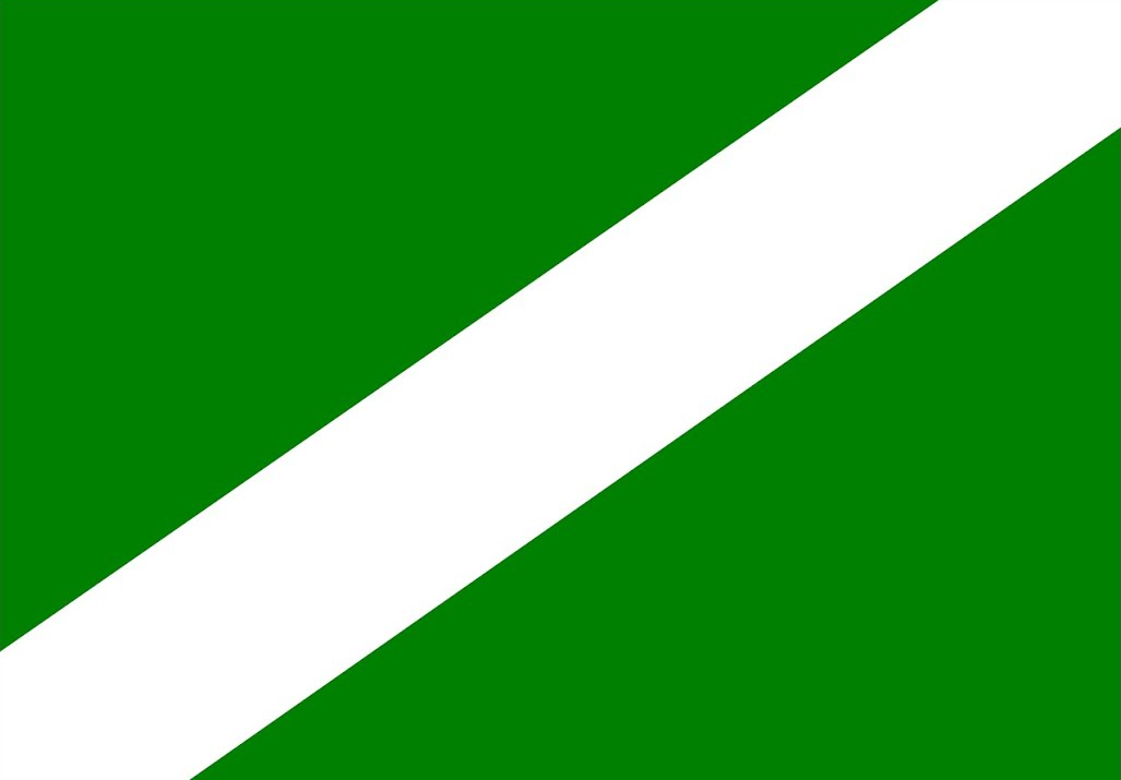 Flag_State_of_Union_of _Jeovah